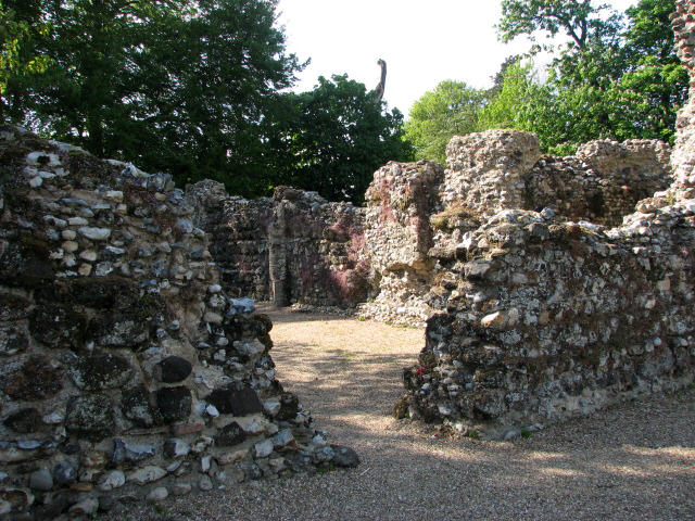 Ruins of 11th-century bishop's chapel and 14th-century fortified manor house at North Elmham, Norfolk, England